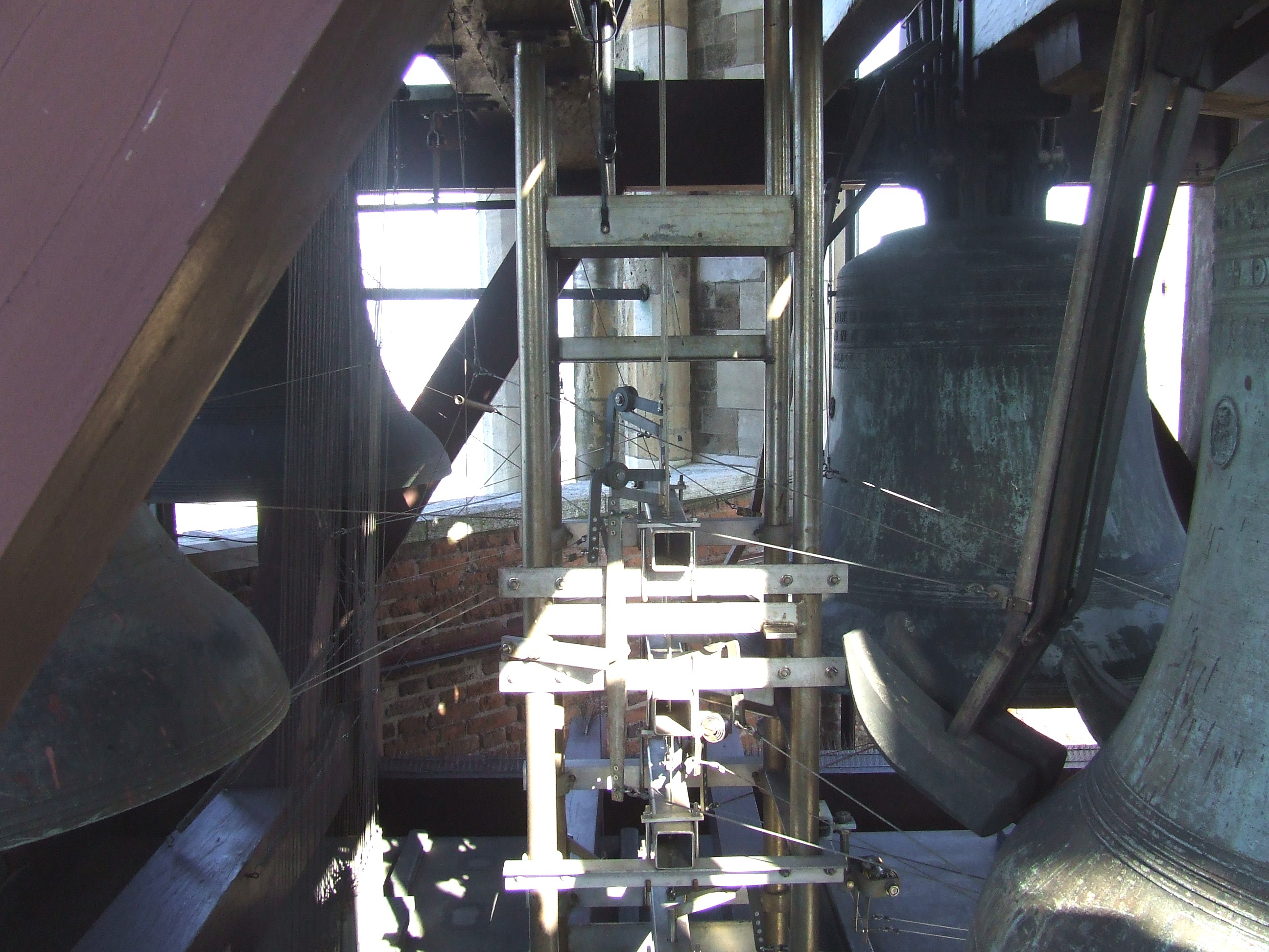 Part of a carillon mechanism in the Dom church in Utrecht.